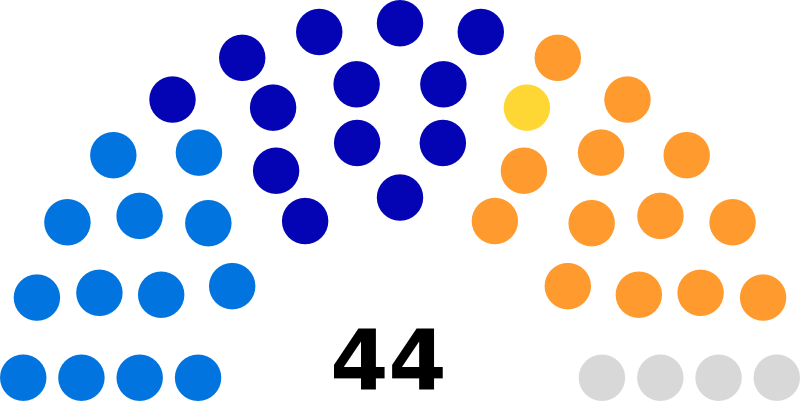 Seats diagramme of Swiss Council of States (1860)